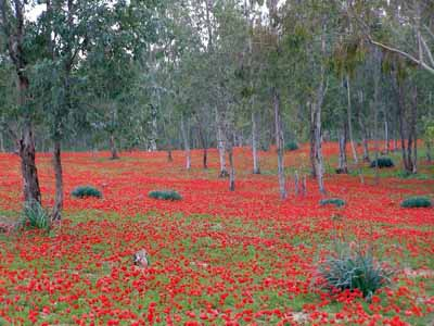 Anemone coronaria Source [1] user nitsi_18 allowed using the image. from this fourom [2]